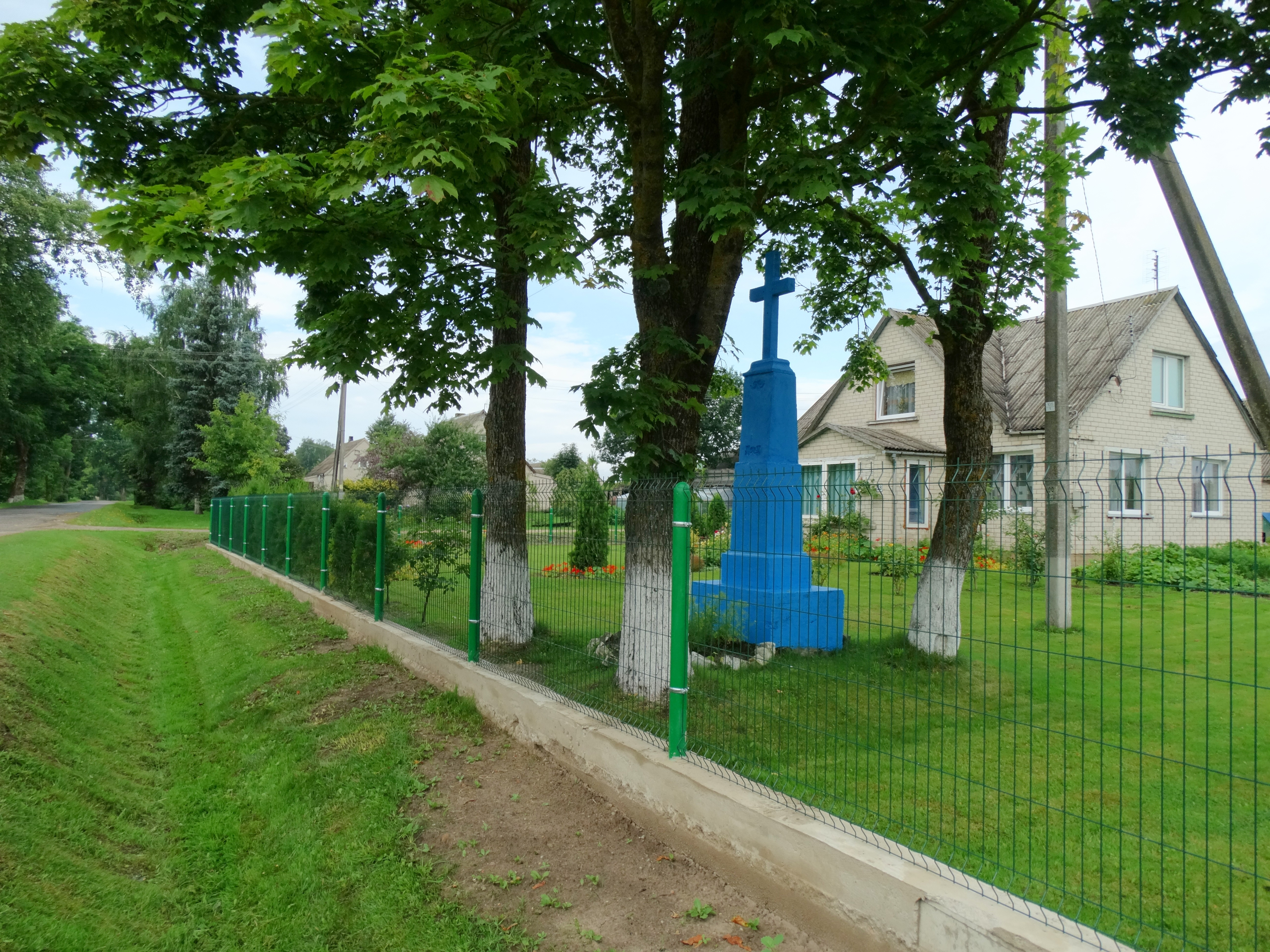 Sablauskiai, cross, Akmenė district, Lithuania